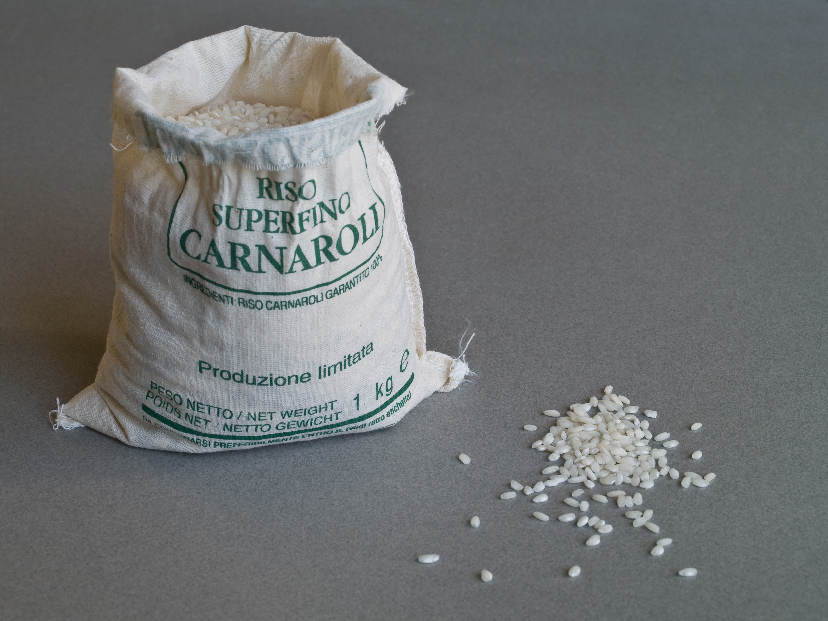 A bag of Carnaroli, an Italian variety of rice.